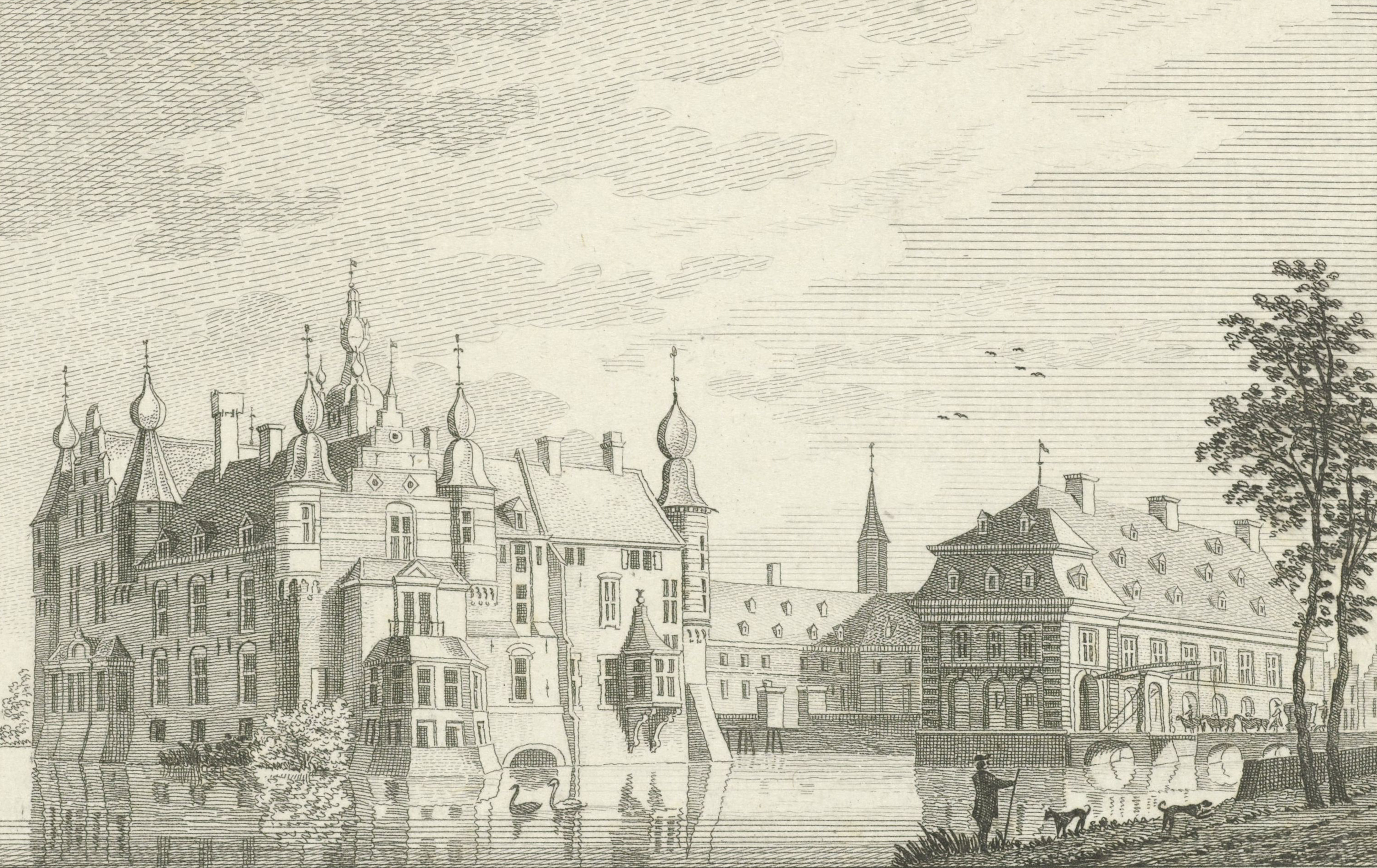 Schloss Wissen in Weeze, south-eastern aspect, old engraving